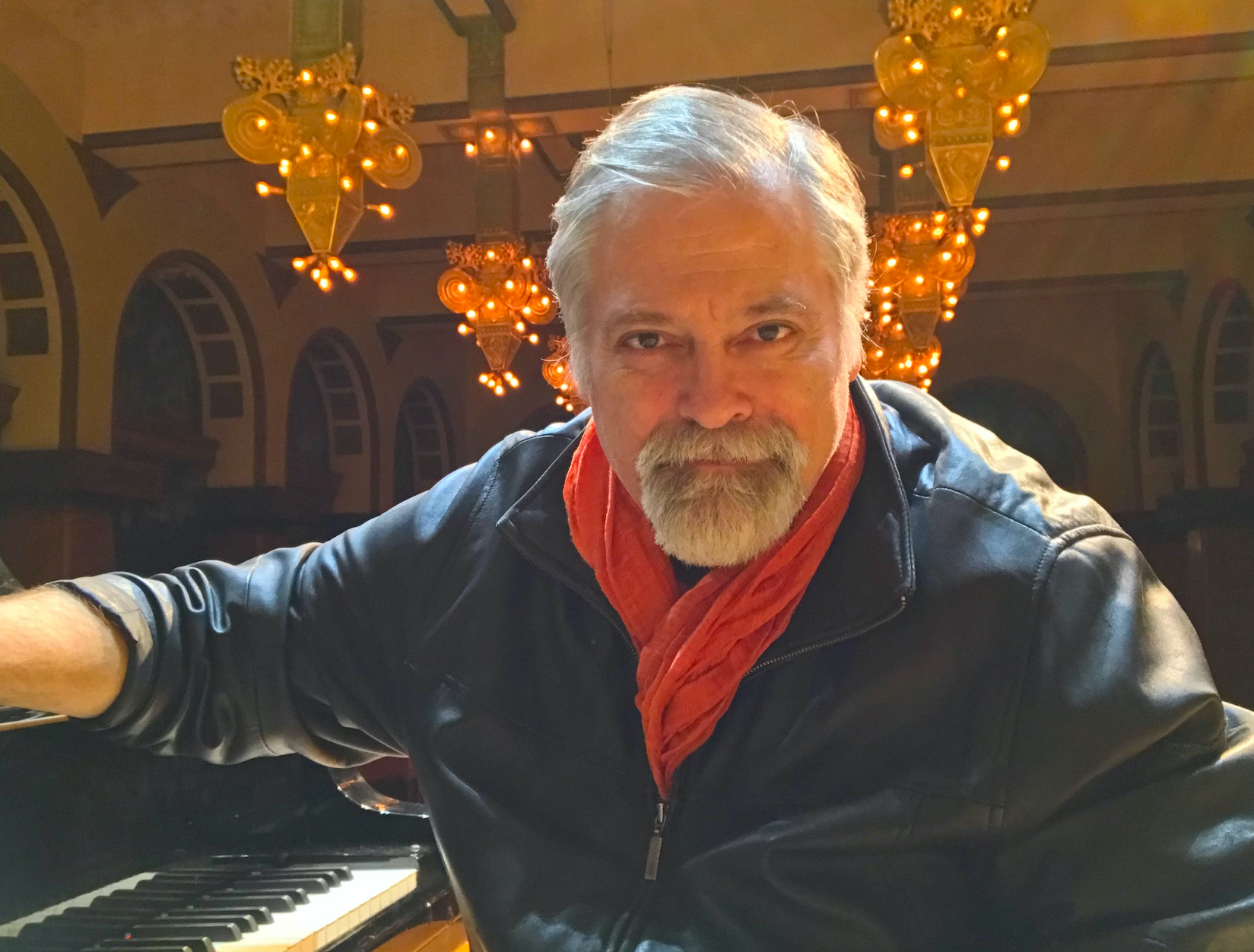 Daron Hagen